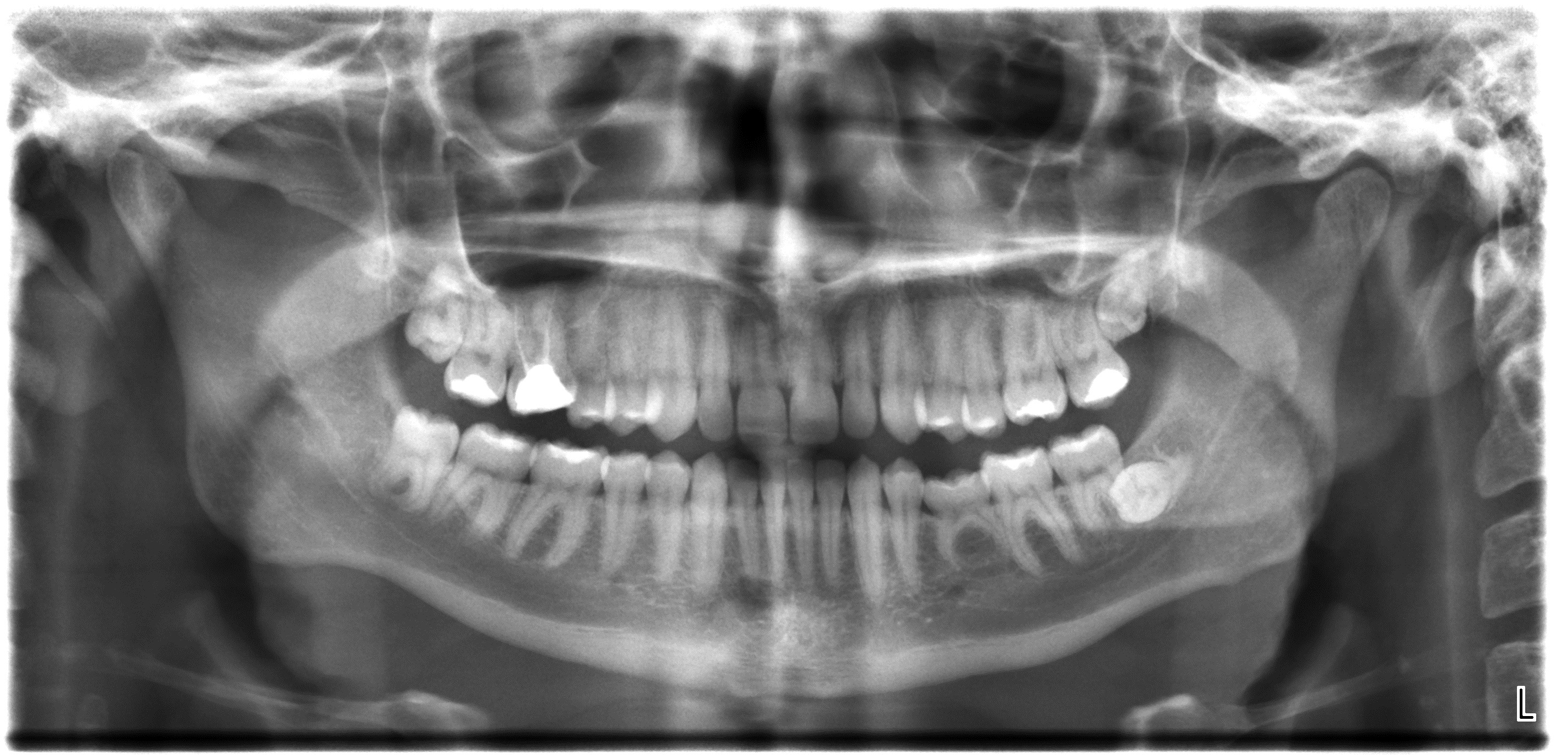 Dental X-rays, showing improperly growned wisdom teeth. To stop pain with inflammation in future, it is need to do surgery on gingiva near wisdom teeth.